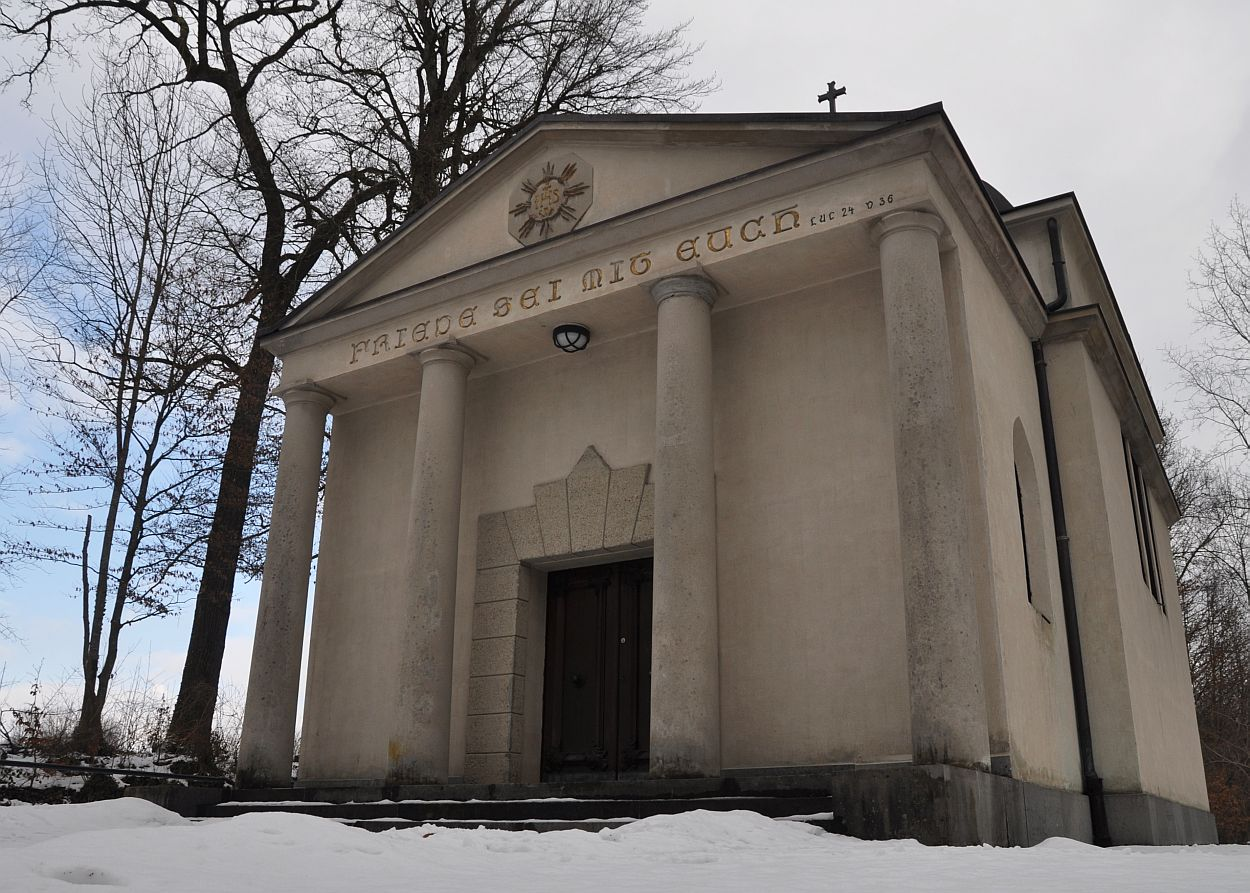 Stollwerck-Mausoleum This is a photograph of an architectural monument.